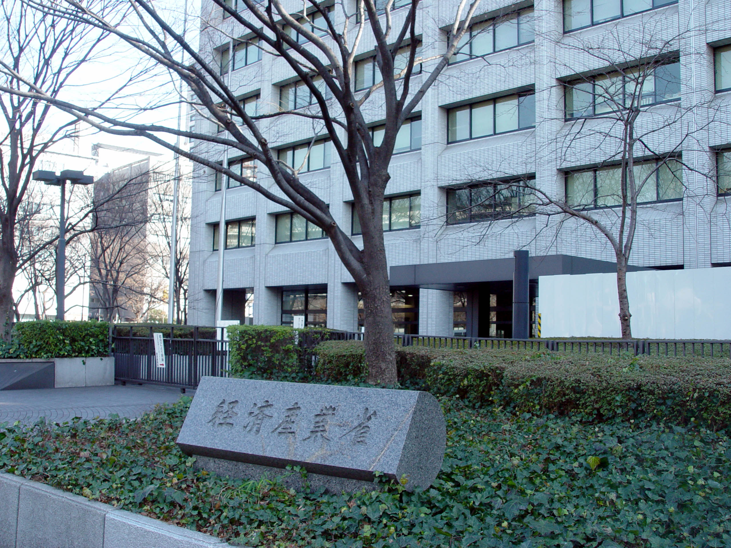 Public office building of Japan: The Ministry of Economy, Trade and Industry Agency of Natural Resources and Energy Safe nuclear power and security academy Patent Office Small and Medium Enterprise Agency Economic industrial laboratory National Institute of Advanced Industrial Science and Technology Industrial property information and training pavilion